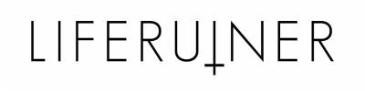 Official logo of Liferuiner band